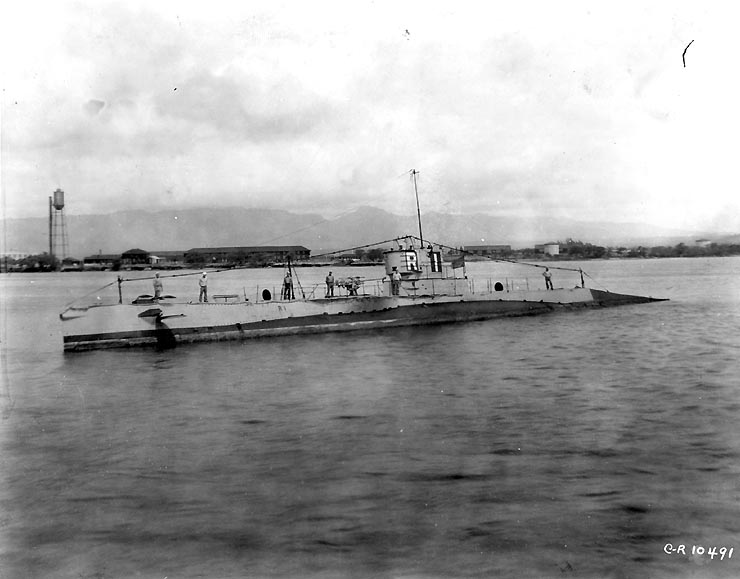 USS R-1 (SS-78) at Pearl Harbor, Hawaii, circa 1923-1930. Original caption: “Photo # NH 41853 USS R-1 at Pearl Harbor” — removed caption